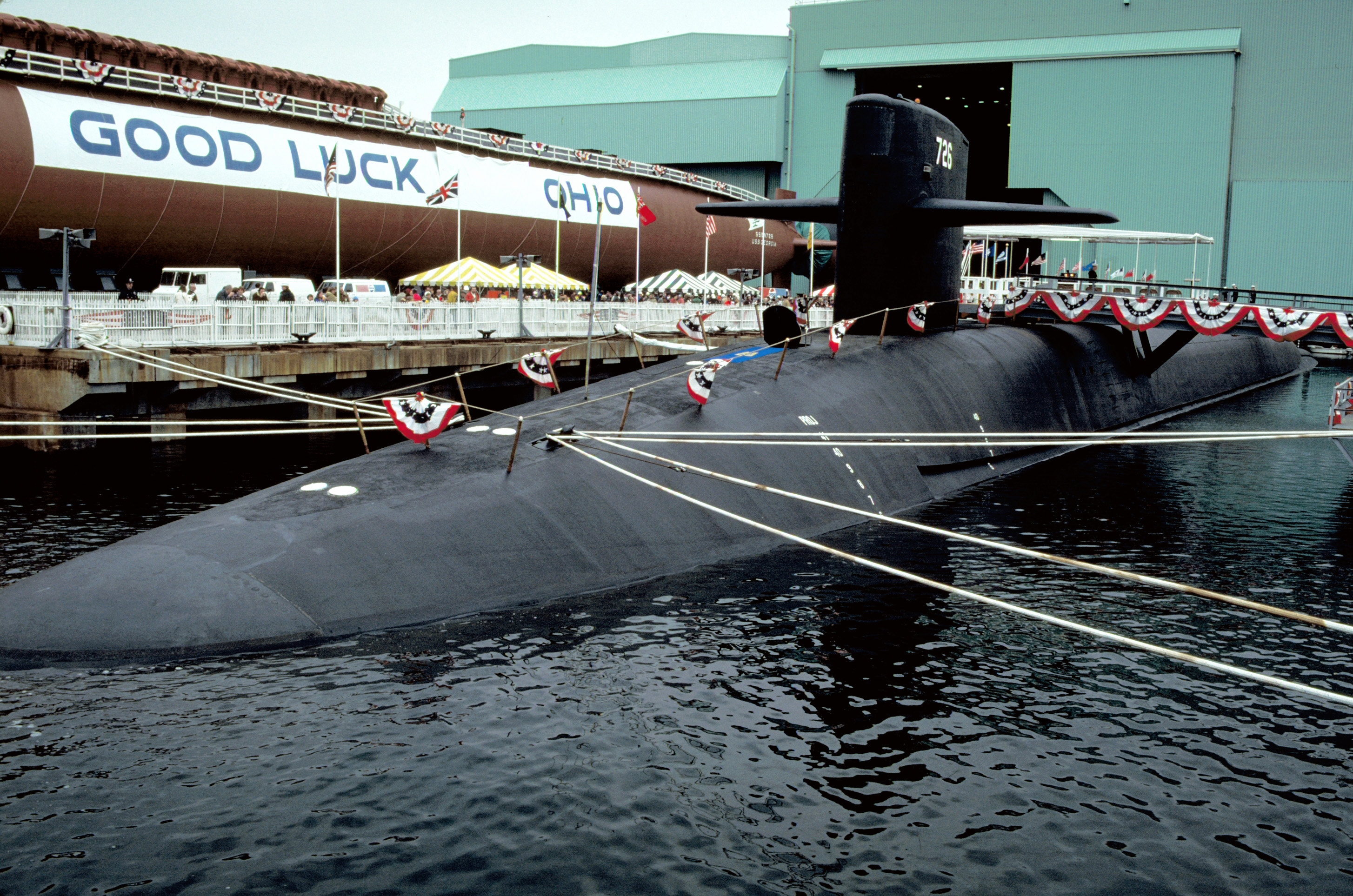 A port bow view of the nuclear-powered ballistic missile submarine USS OHIO (SSBN-726) secured in the water during its commissioning. The partially-constructed nuclear-powered ballistic missile submarine GEORGIA (SSBN-729) displays a "Good Luck Ohio" banner nearby. Both ships are products of General Dynamics Corp.